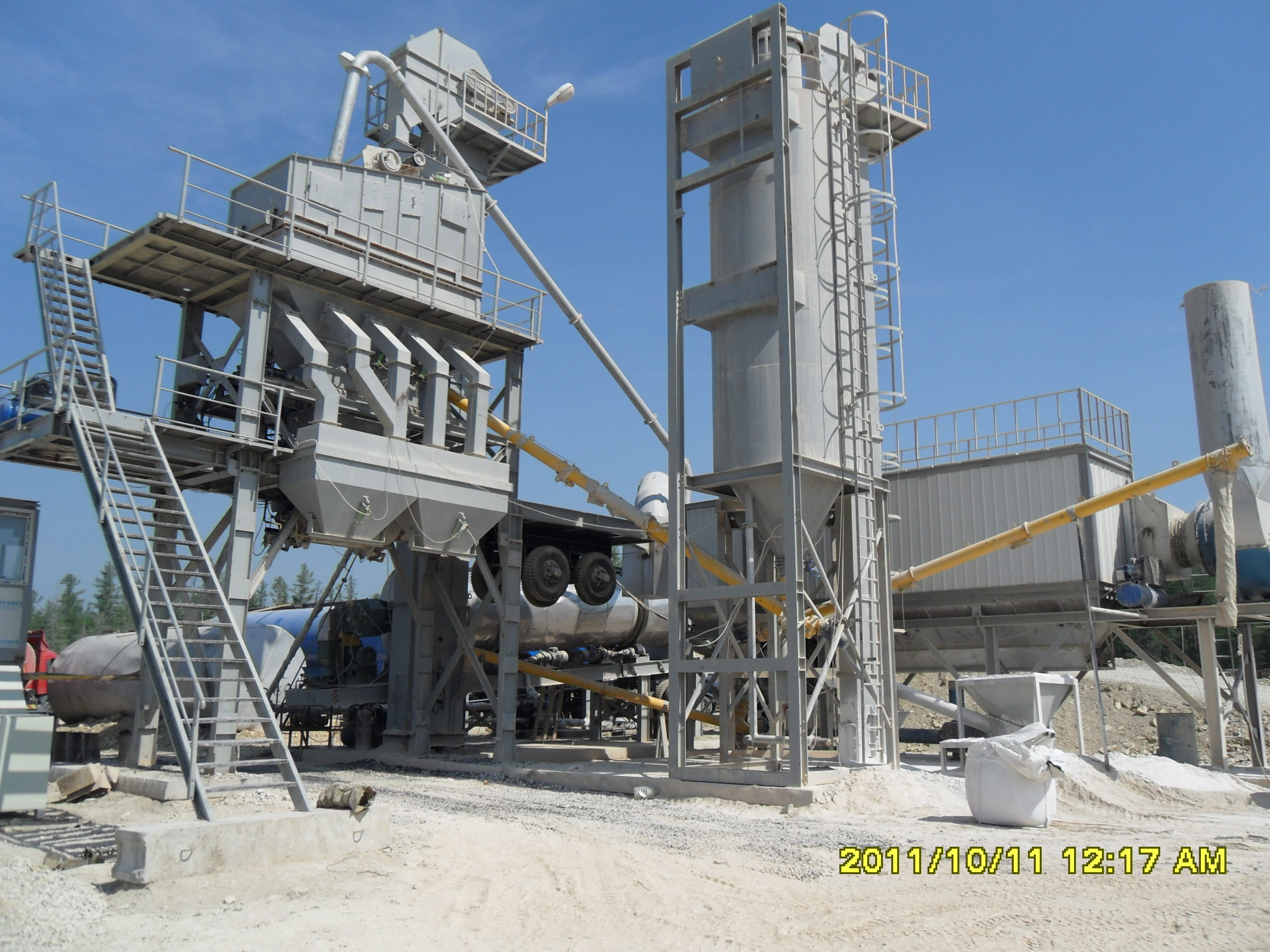 Movable asphalt batch mix plant